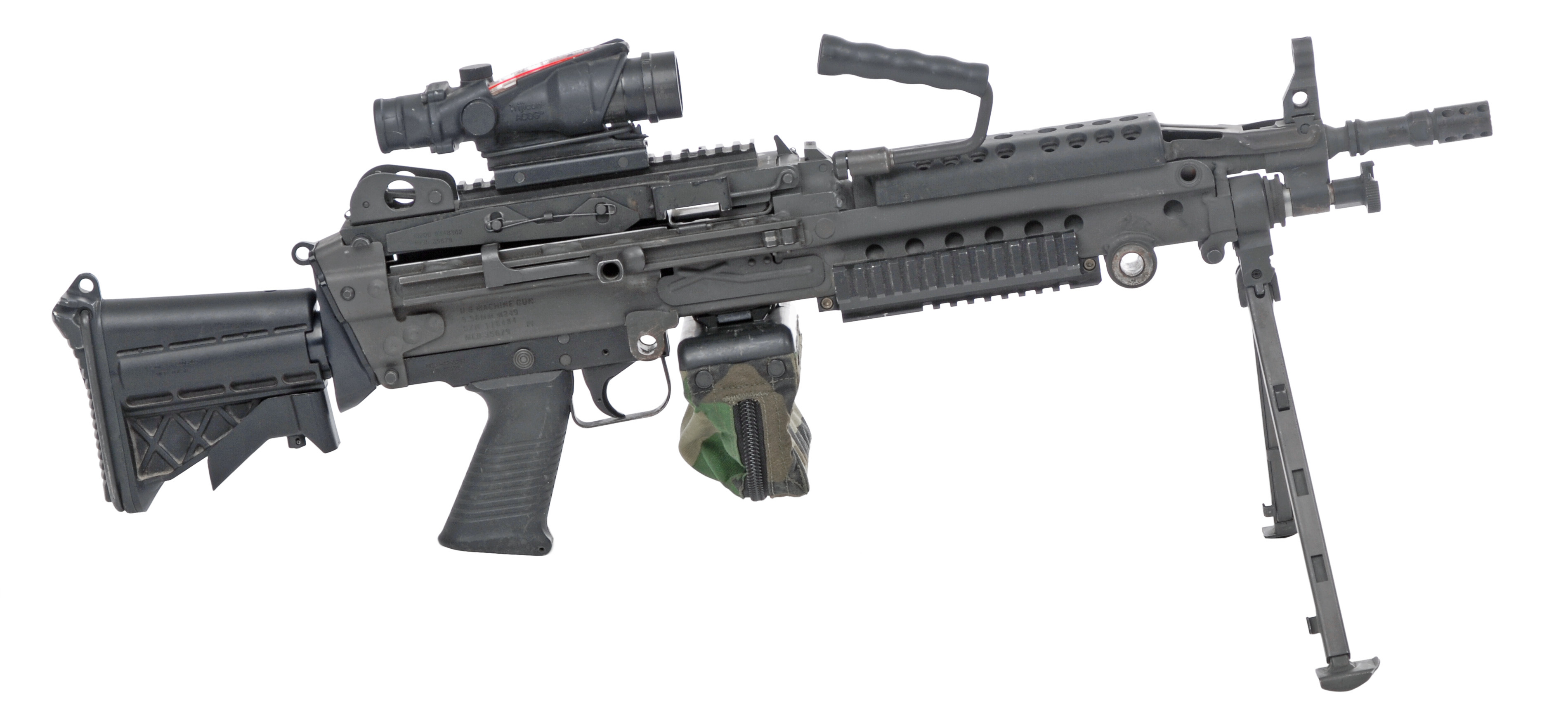 The M249 Squad Automatic Weapon (SAW) fills the automatic rifle role in infantry squads and provides light machine gun capabilities in combat service and combat service support units.